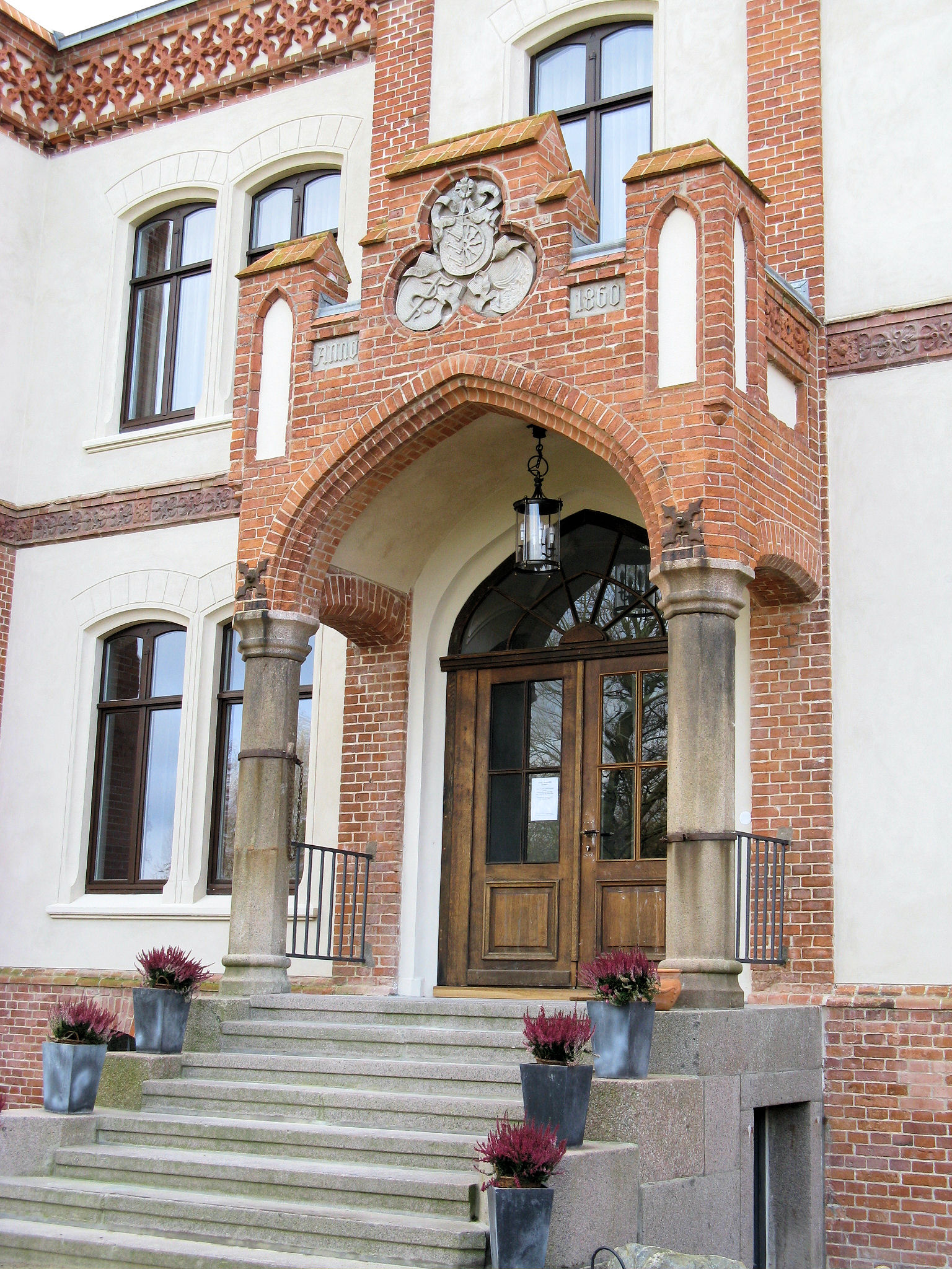 Manor house Schloss Gamehl in Gamehl, Mecklenburg-Vorpommern, Germany